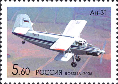 Airplanes of the O.K.Antonov design office. On the occasion of the 100th birth anniversary of O.K.Antonov, the aircraft designer. An-3T.